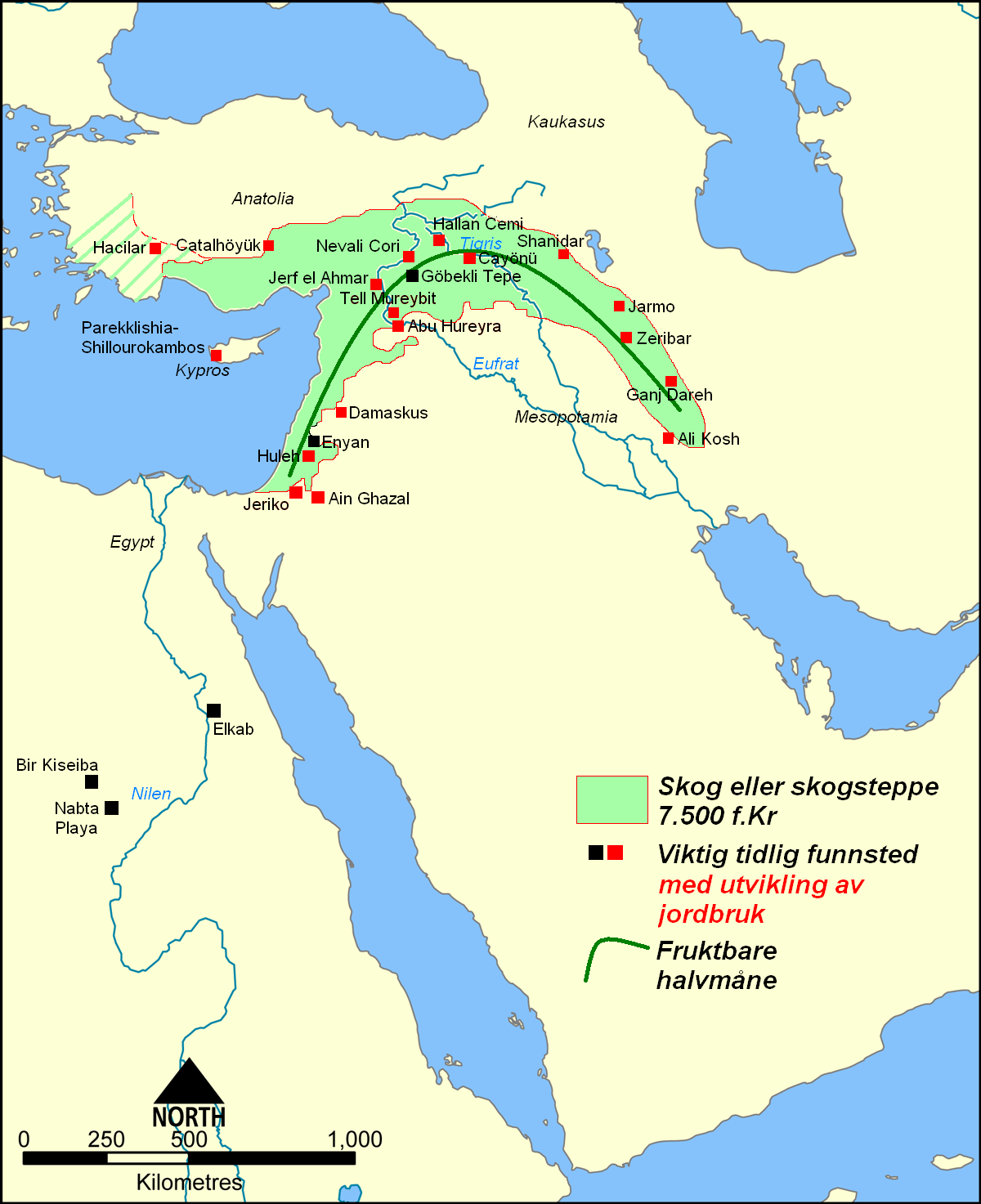 Map of Fertile Crescent 7500 BC in Norwegian